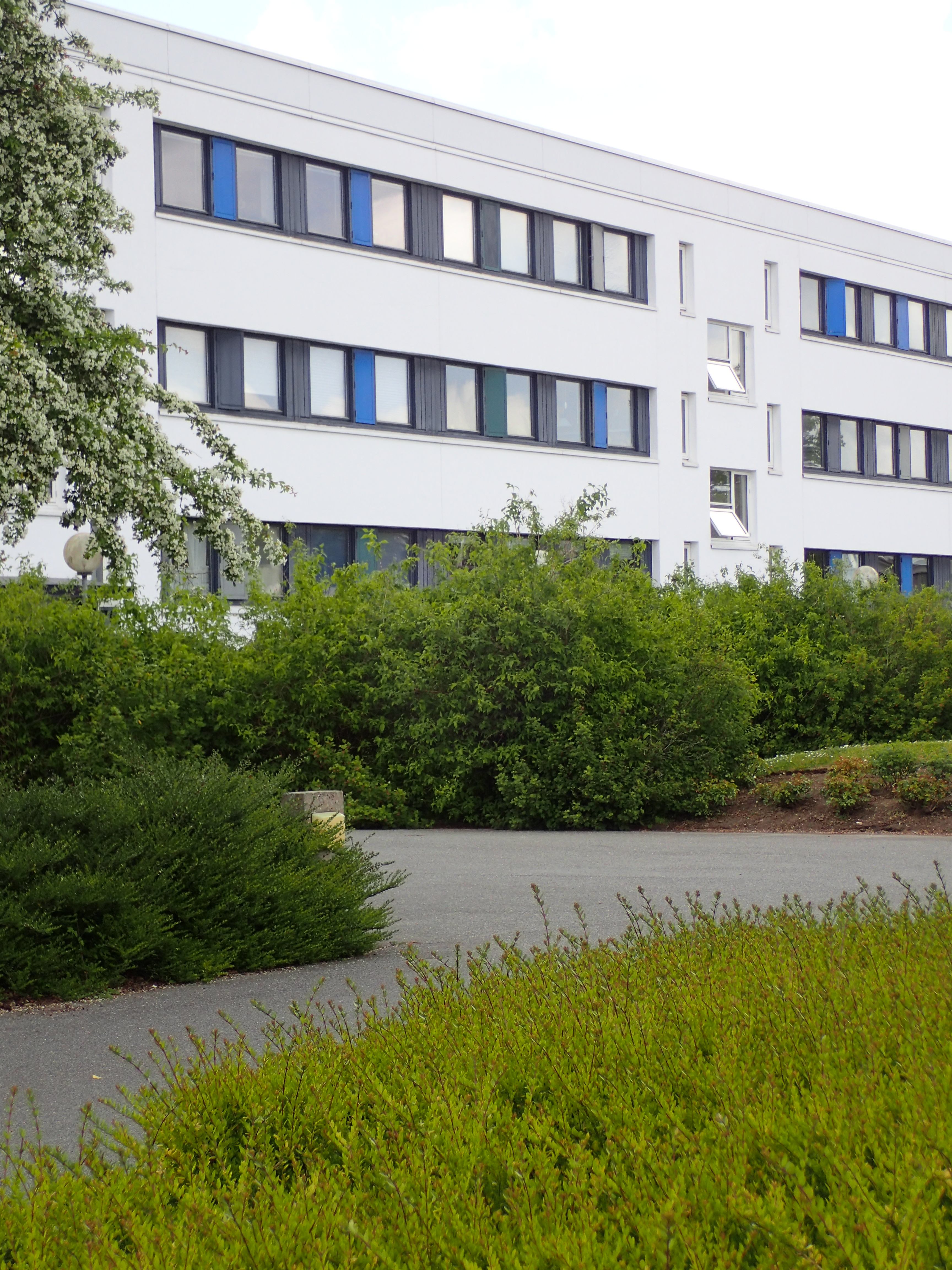 Boligblok i Nyringen.